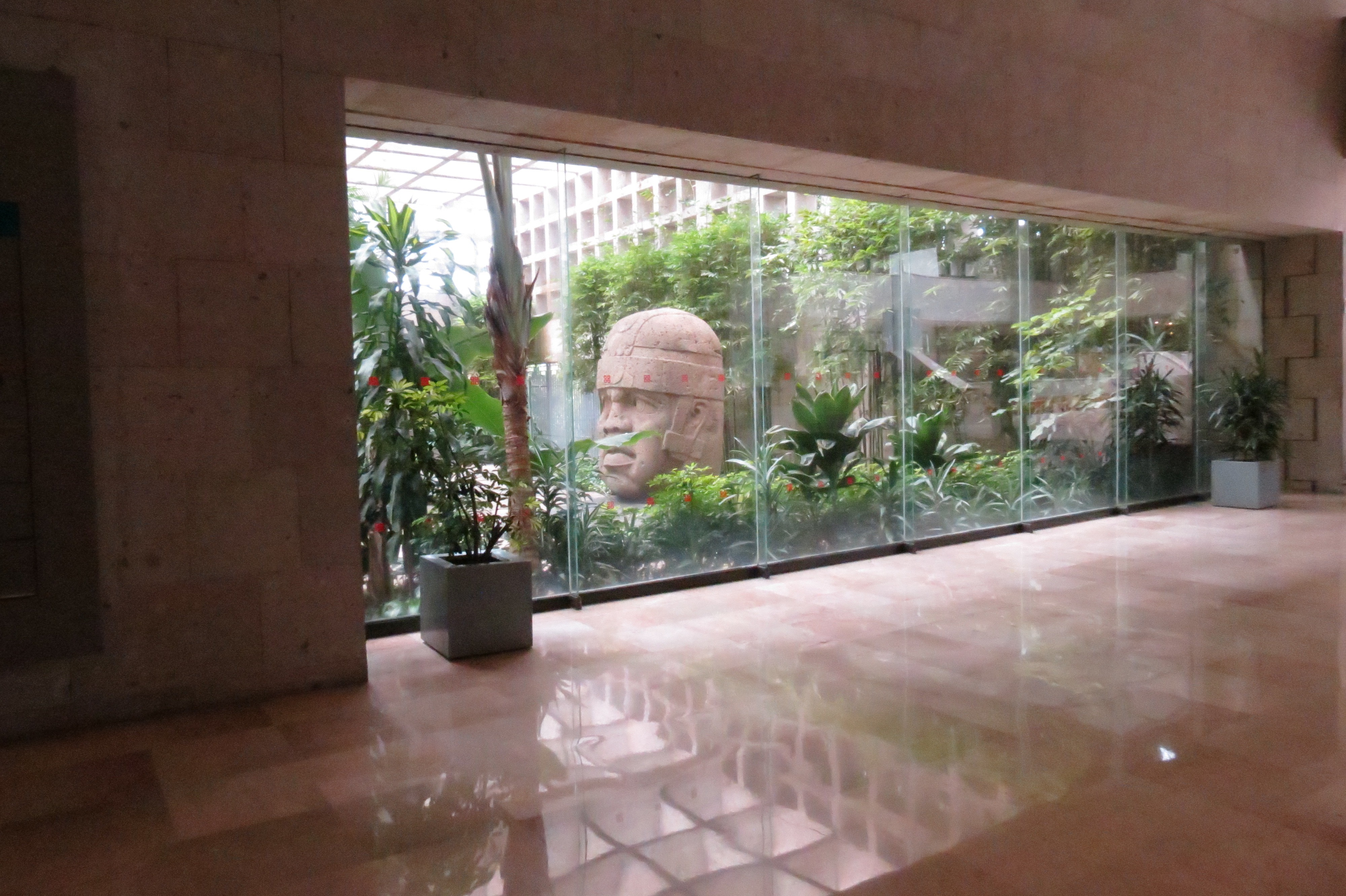 The image shows the first MAX patio seen from inside the museum.